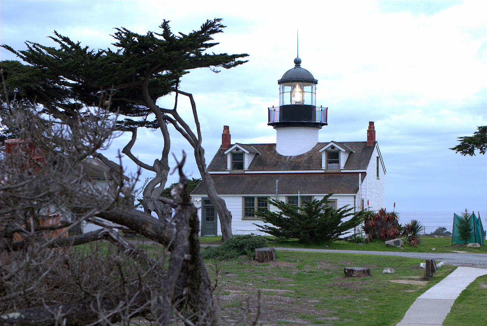 Point Piños Light near Pacific Grove, California